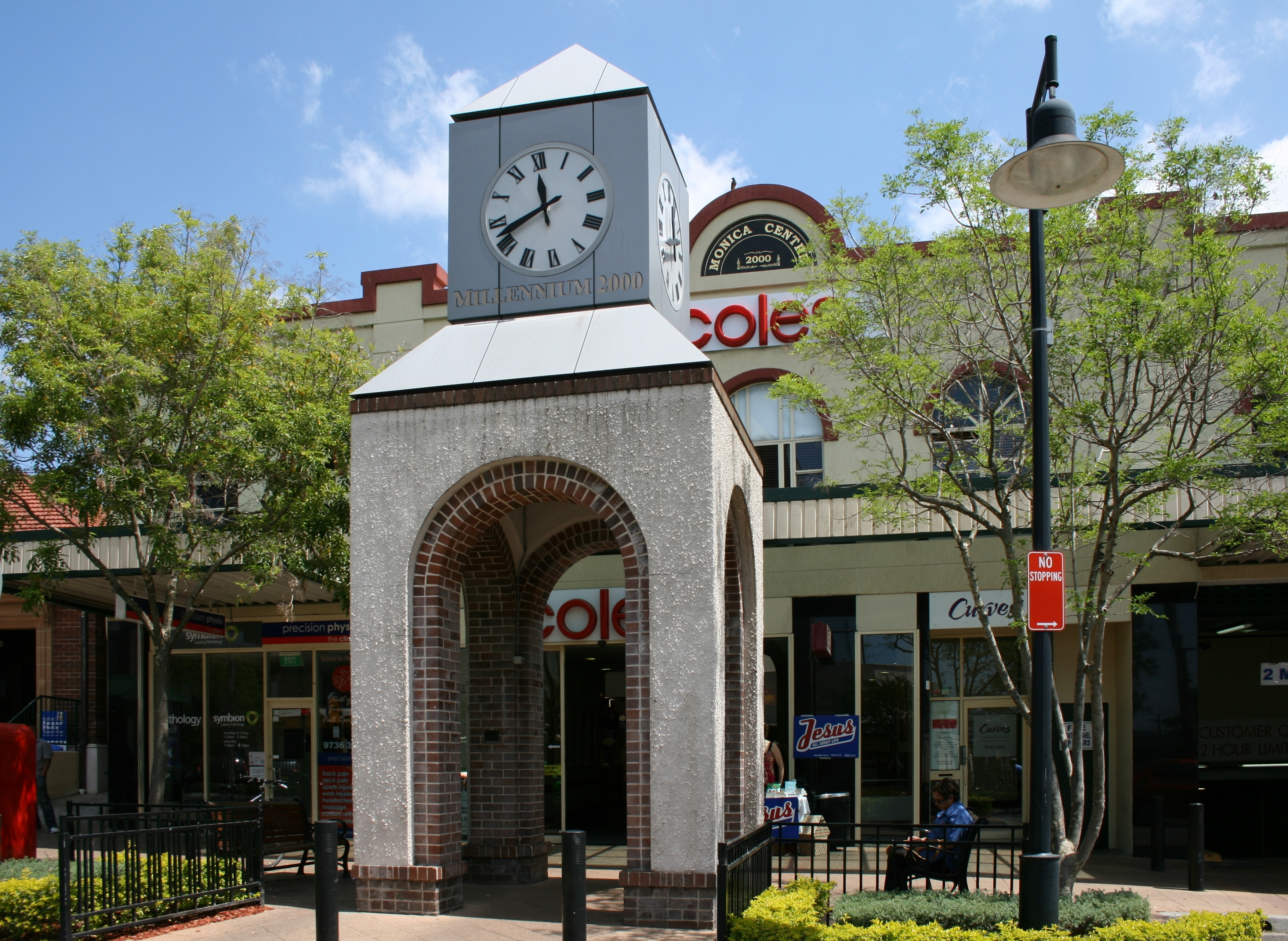 The clock tower on Majors Bay Road in Concord, New South Wales (NSW), Australia. In the background is the Monica Centre, housing the Coles supermarket. Also visible is a table set up by local churches to publicize the "Jesus - all about life" campaign.